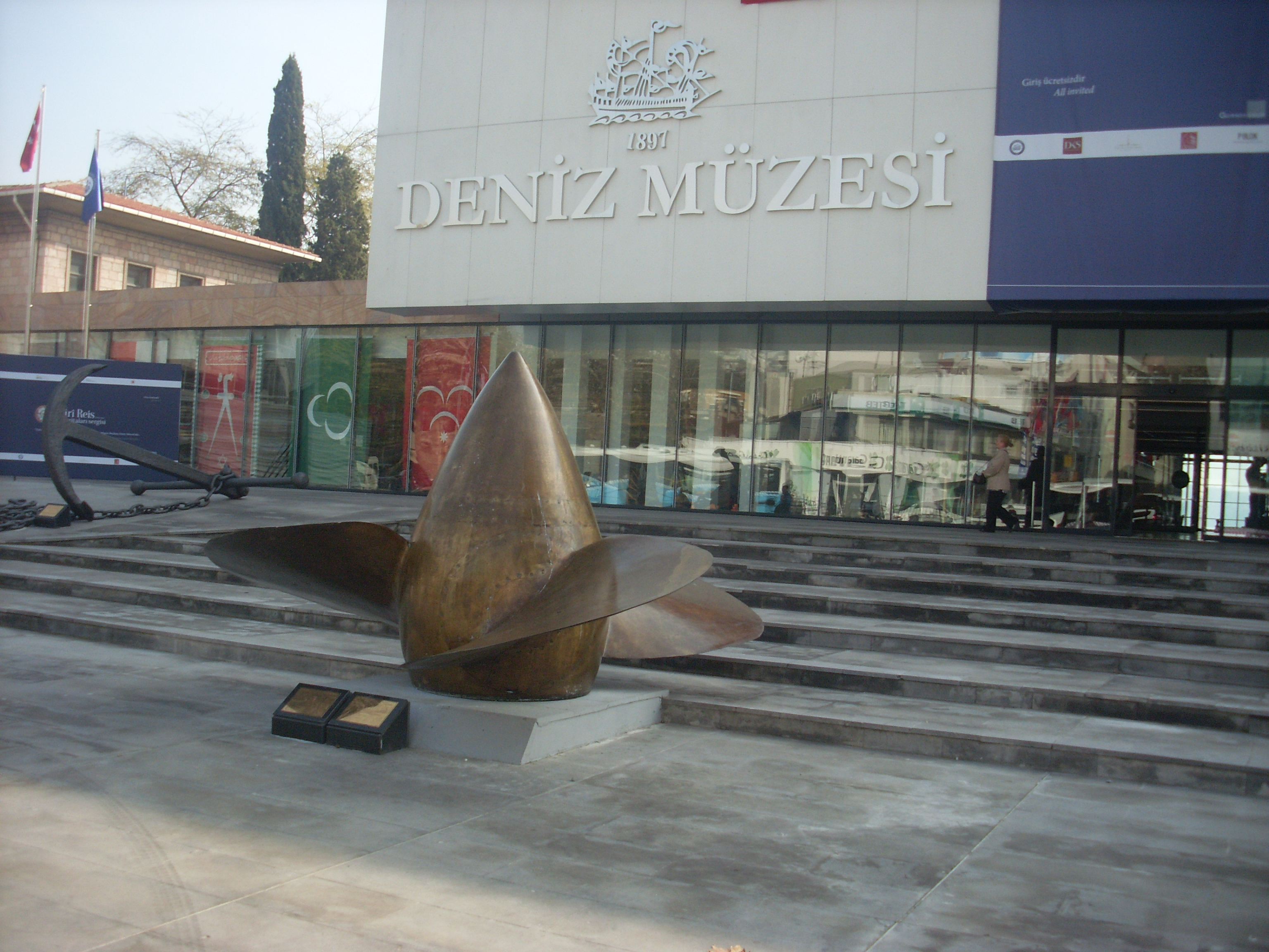 Propeller of Yavuz (SMS Goeben) at Istanbul Naval Museum Oct 2013